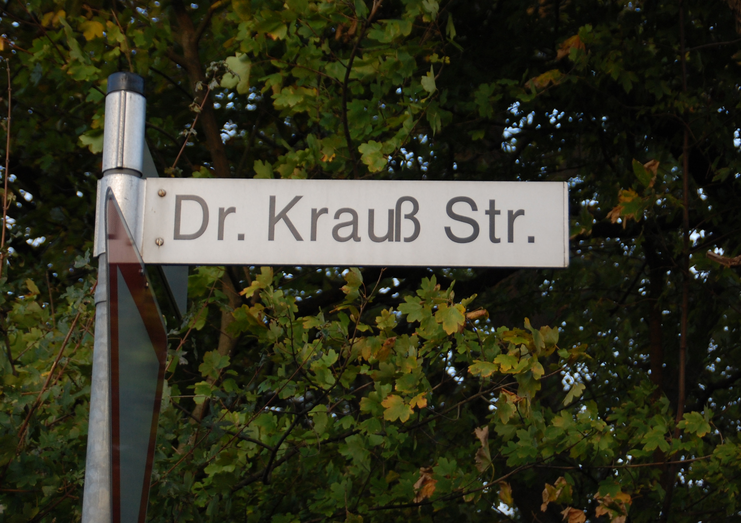 Sign of Dr. Krauß Straße in Huerth-Knapsack, Germany